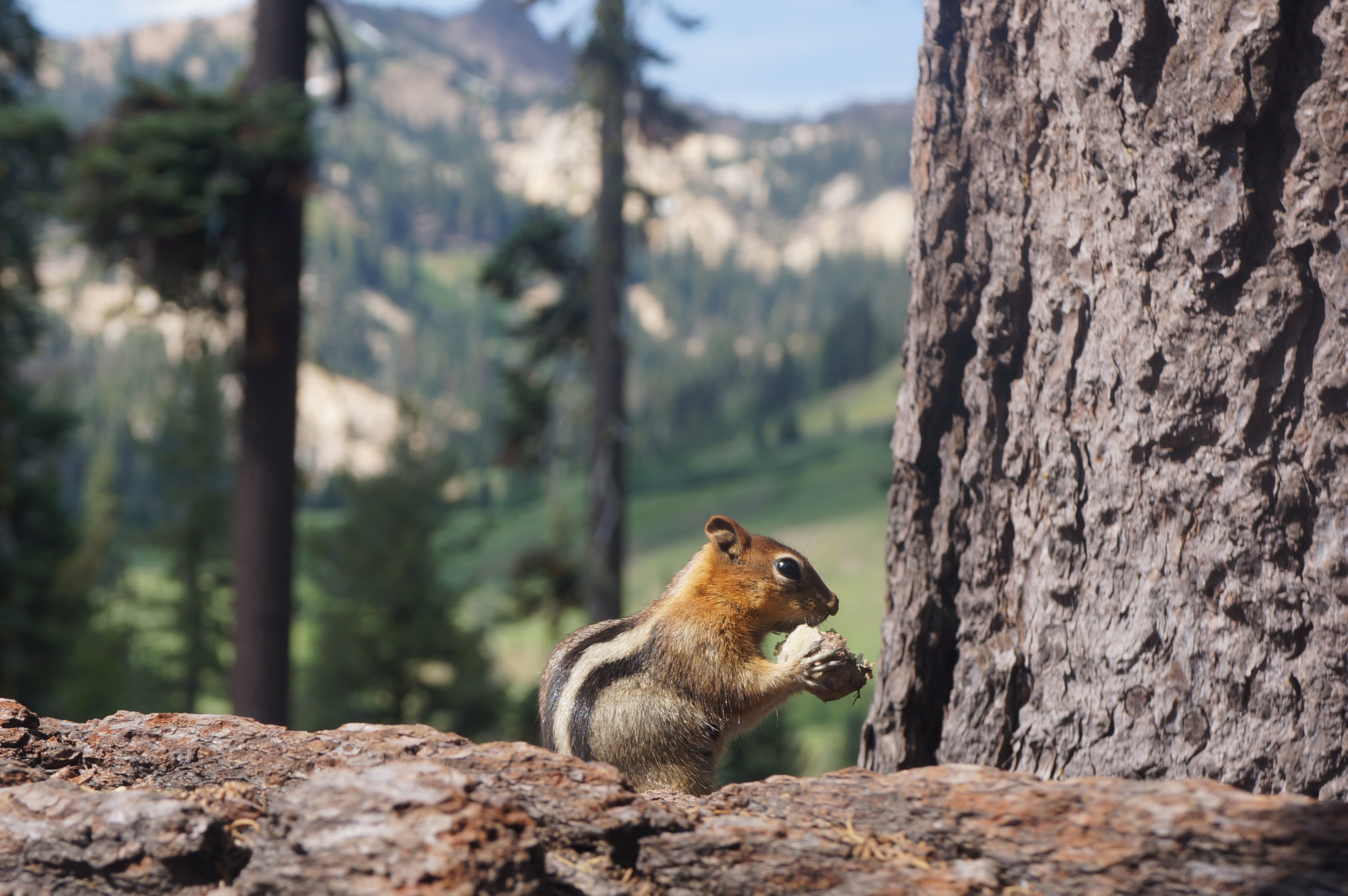 golden-mantled ground squirrel, eating in Lassen Volcanic National Park in California, USA